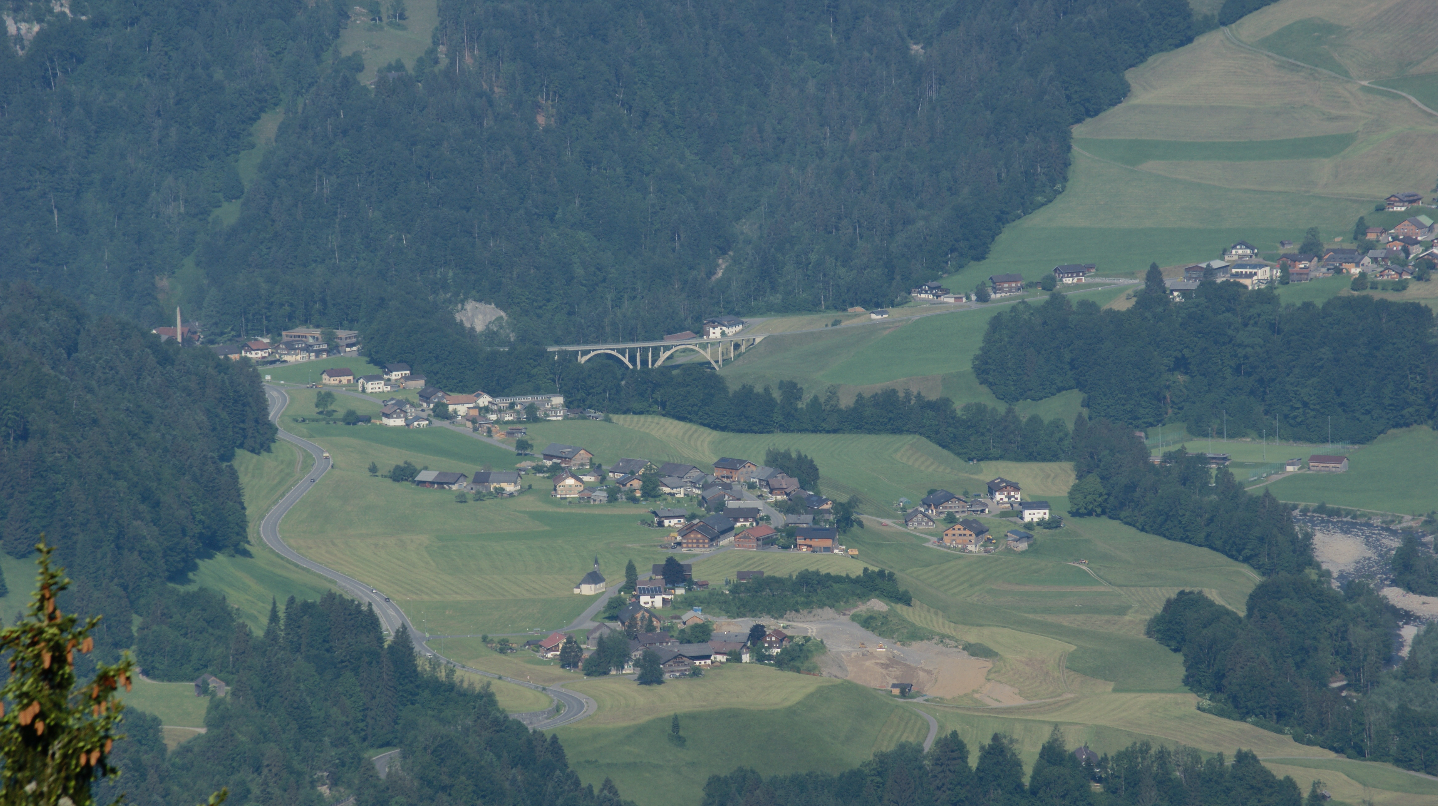 Village Bersbuch, community Andelsbuch, Vorarlberg, Austria. Views from Alp Niedere.